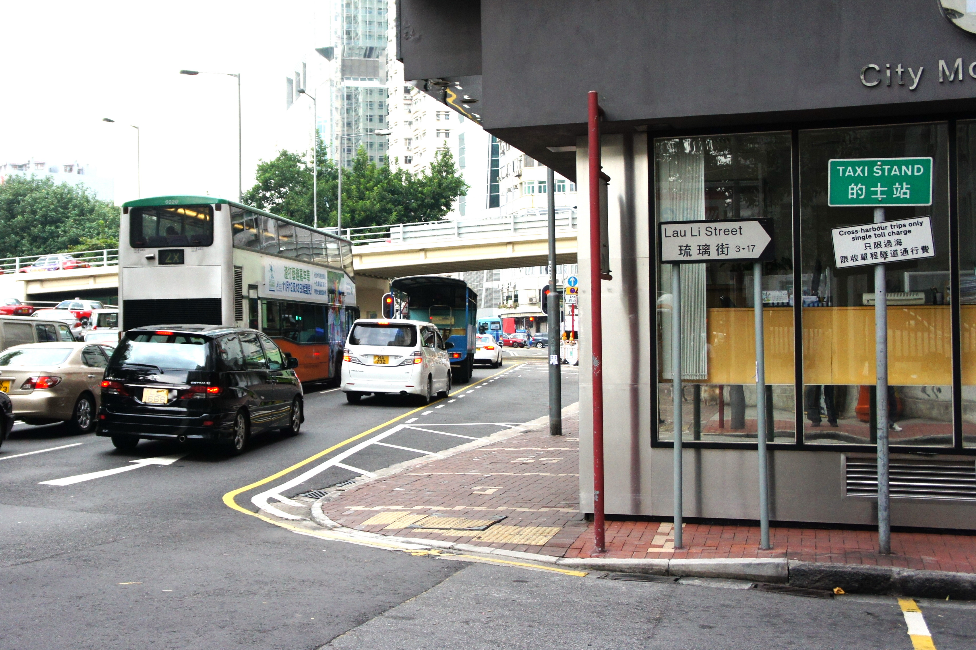 Lau Li Street, Tin Hau, Hong Kong.